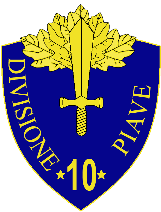 10a Divisione Fanteria Piave insignia, Regio Esercito, Italy, WWII